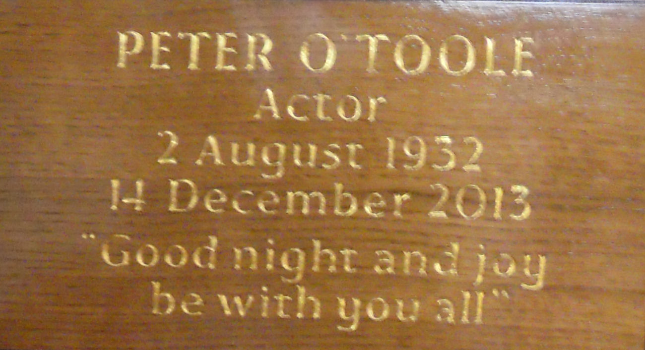 Memorial plaque to Peter O'Toole at St Paul's, Covent Garden